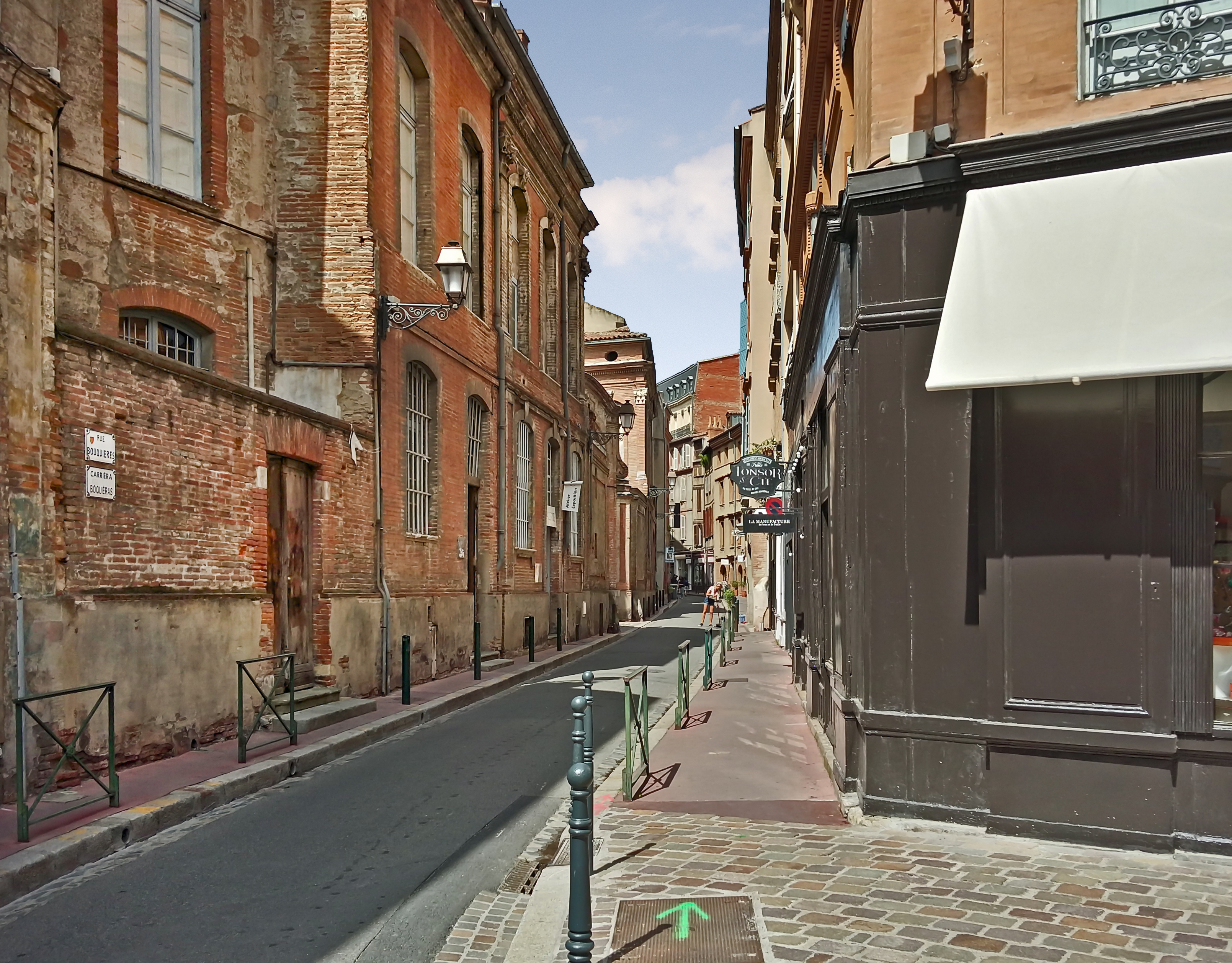 Rue Bouquières in Toulouse, view of the Place Mage.